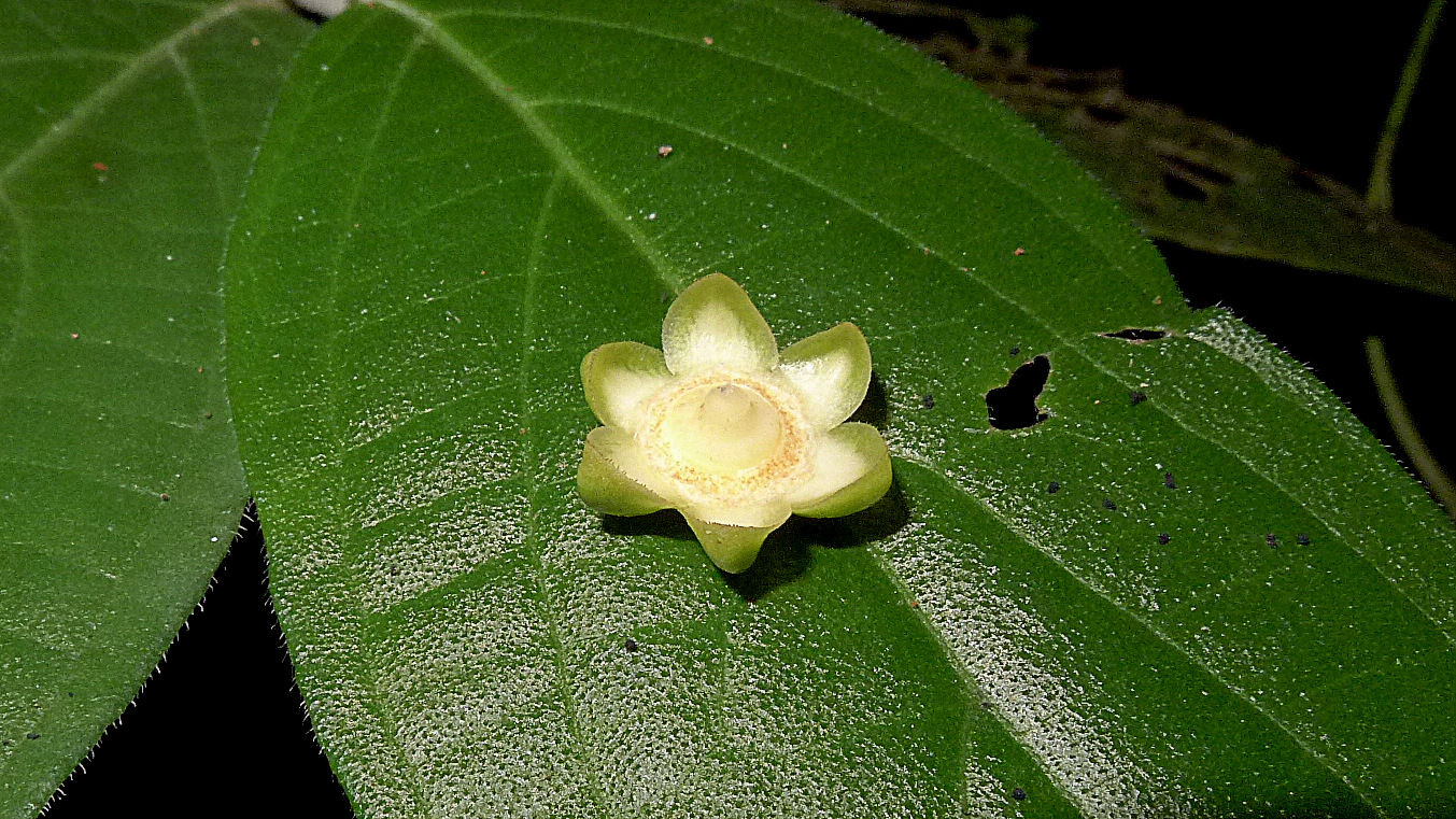 Lecythis marcgraaviana Miers